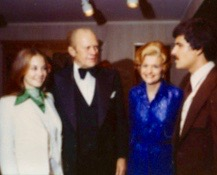 Campaign Trip To California; Private Reception Following Salute to the President Dinner -Beverly Hills, California. Mark Spitz and his wife meet the Fords. Beverly Hills, CA Beverly Hilton Hotel - President's Suite 1976-10-07 From the photo contact sheet, identified as B1804 by the White House Photographic Office (WHPO), which is housed at the Gerald R. Ford Presidential Library, a branch of the National Archives and Records Administration (NARA).